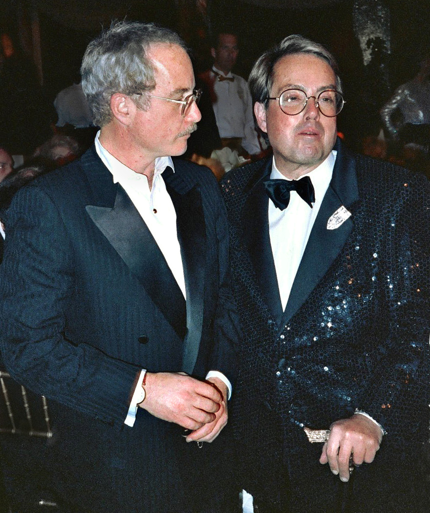 Richard Dreyfus and Allan Carr at the Governor's Ball party after the 1989 Academy Awards, March 29, 1989